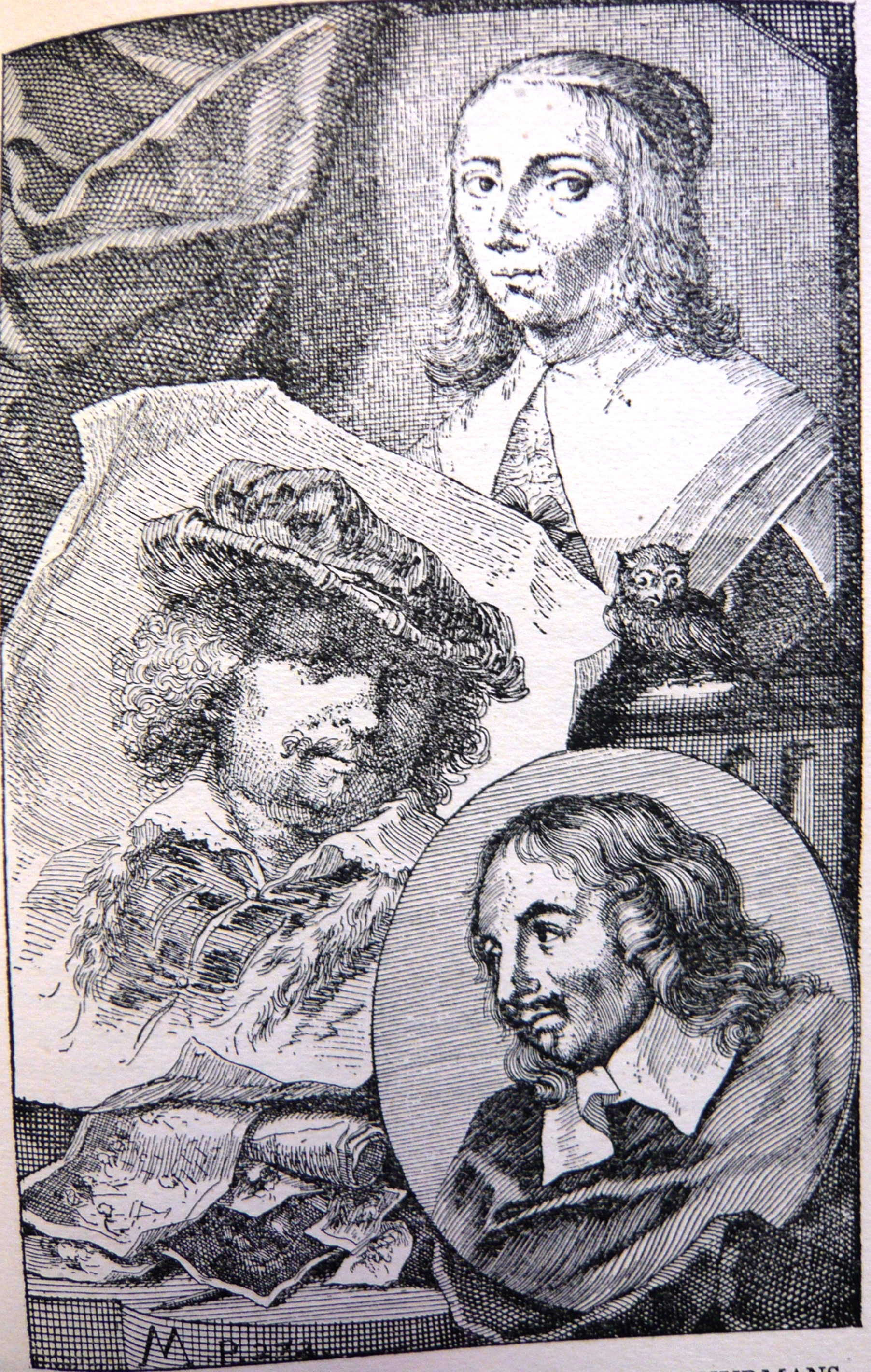 Schouburg Part 1 Plate M with Anna Maria Schuurmans, Jacob Adriaensz Backer and Rembrandt, Page 272 of Part 1 of Arnold Houbraken's Schouburg from 1718